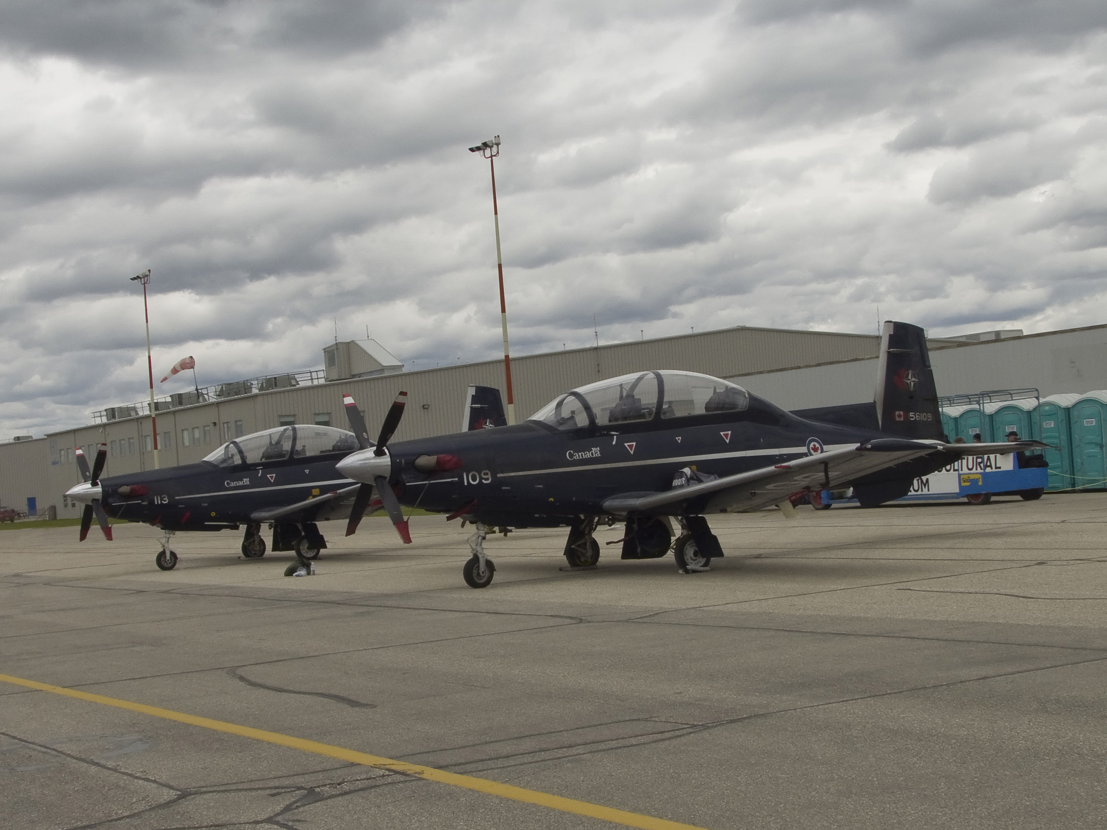 Two Canadian Forces CT-156 Harvard II trainers on display at the 2009 Portage-la-Prairie air show. Canadian Forces trainer aircraft are painted in this blue colour.